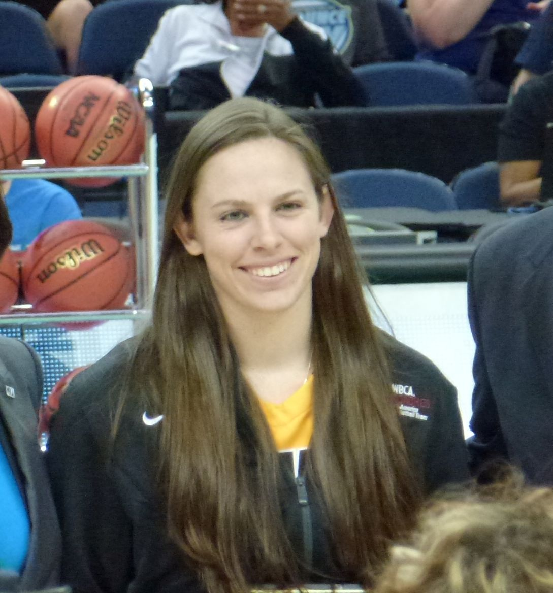 Samantha Logic at the 2015 WBCA convention, being named to the 2015 WBCA All-America team